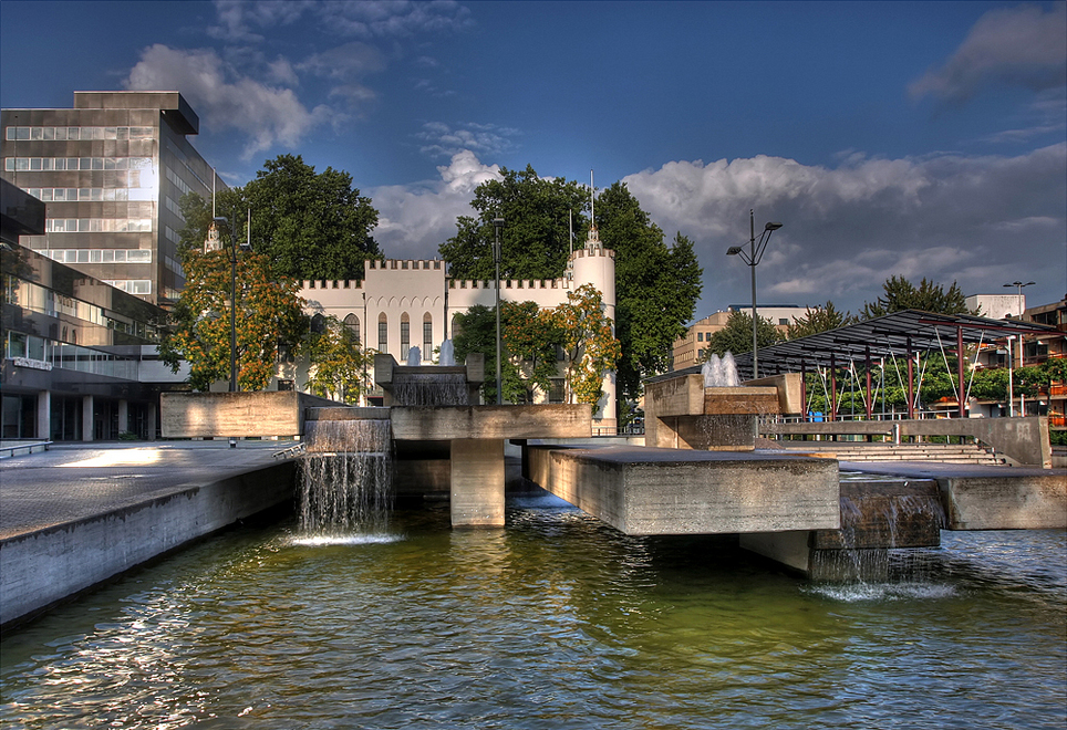 Fountain and City hall in Tilburg